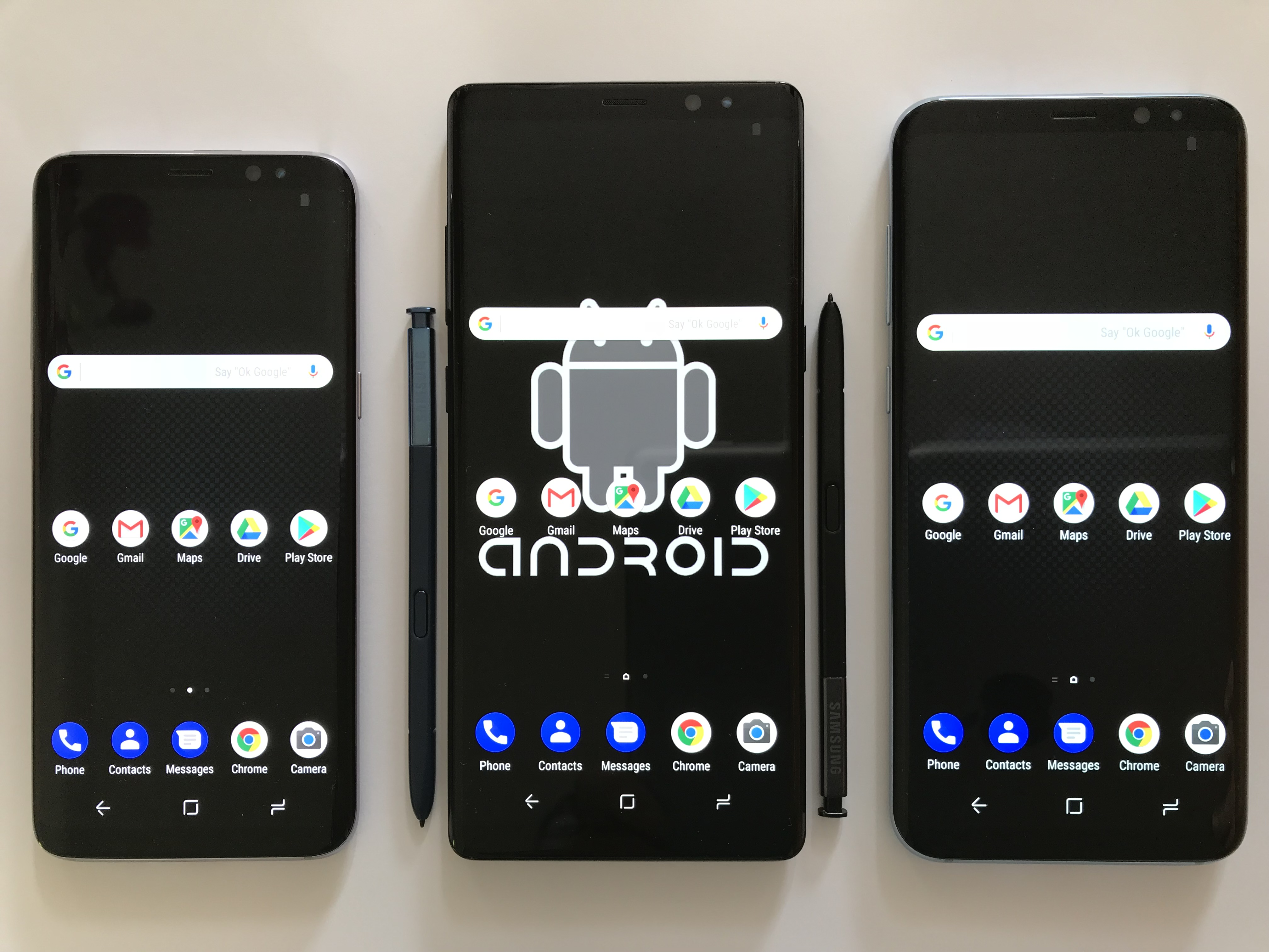 Android User Interface